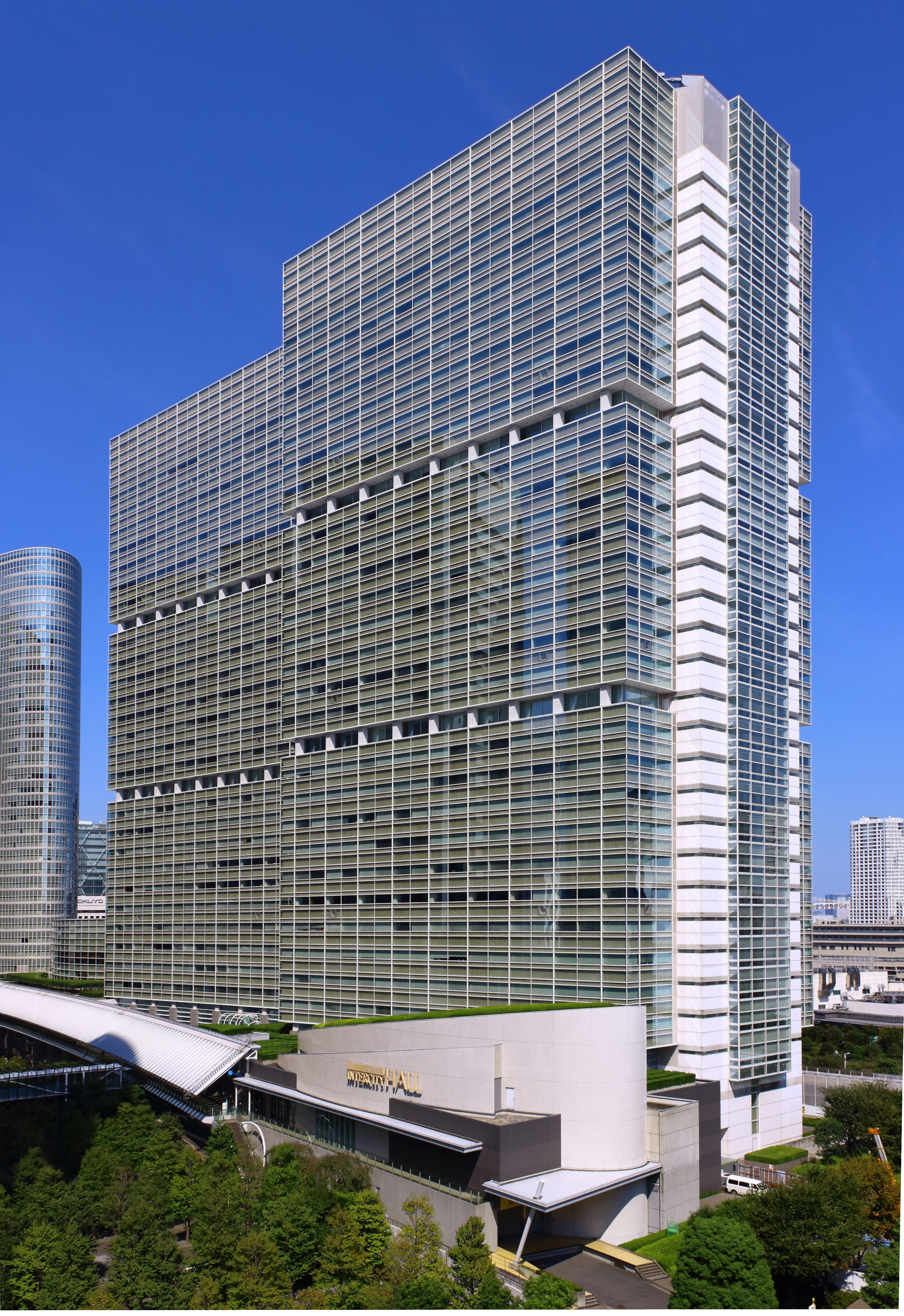 (Based on automated translation): Shinagawa Intercity Building B and Building C (Minato Ward, Tokyo). Building B: Obayashi Headquarters, Fujitsu Personals Headquarters, Building C: NEC Capital Solutions Headquarters, Fujitsu Marketing Headquarters, Nikon Headquarters.